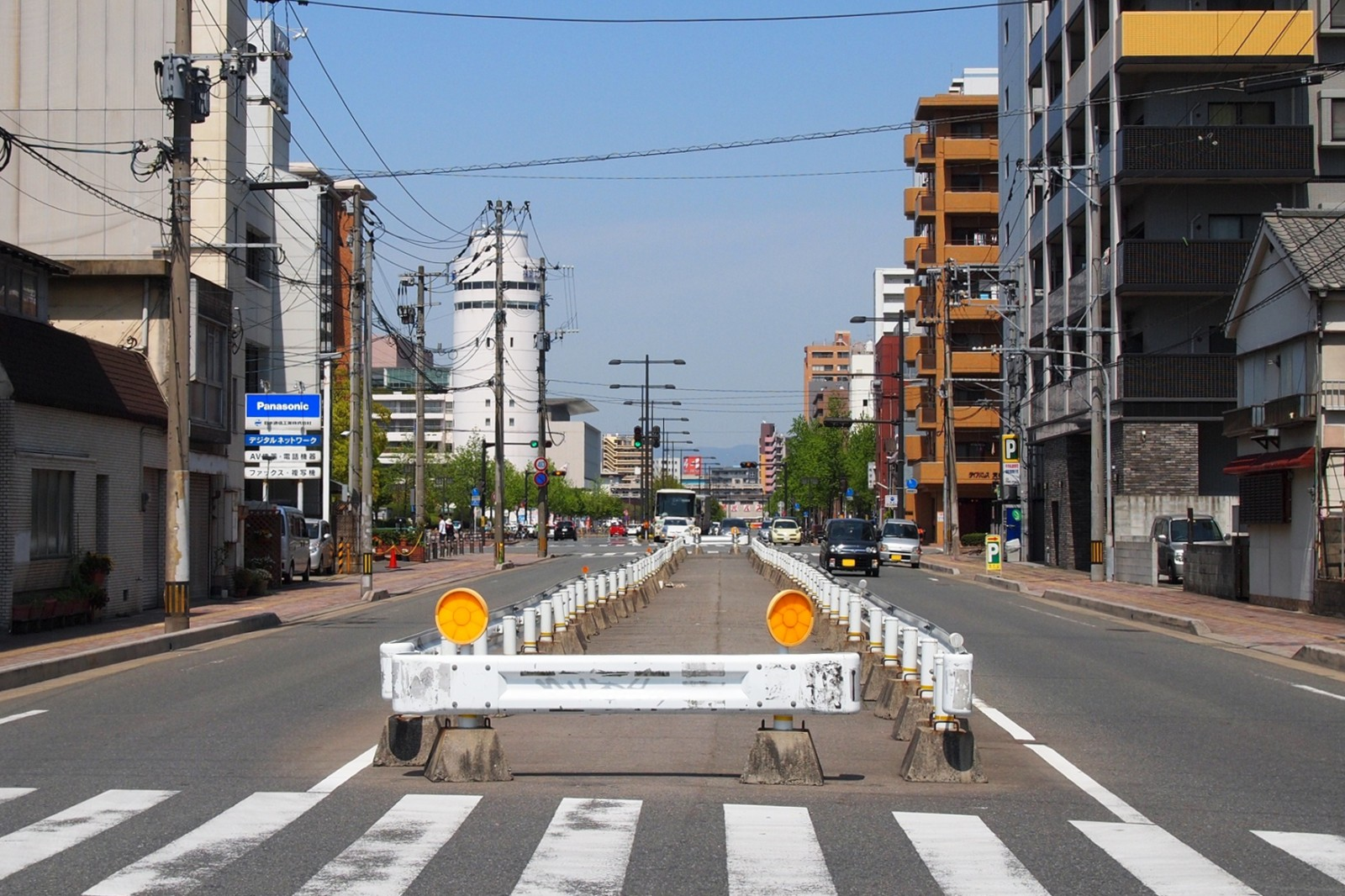 Abolished section of the Hakata Rinko Line in Hakata-ku, Fukuoka City